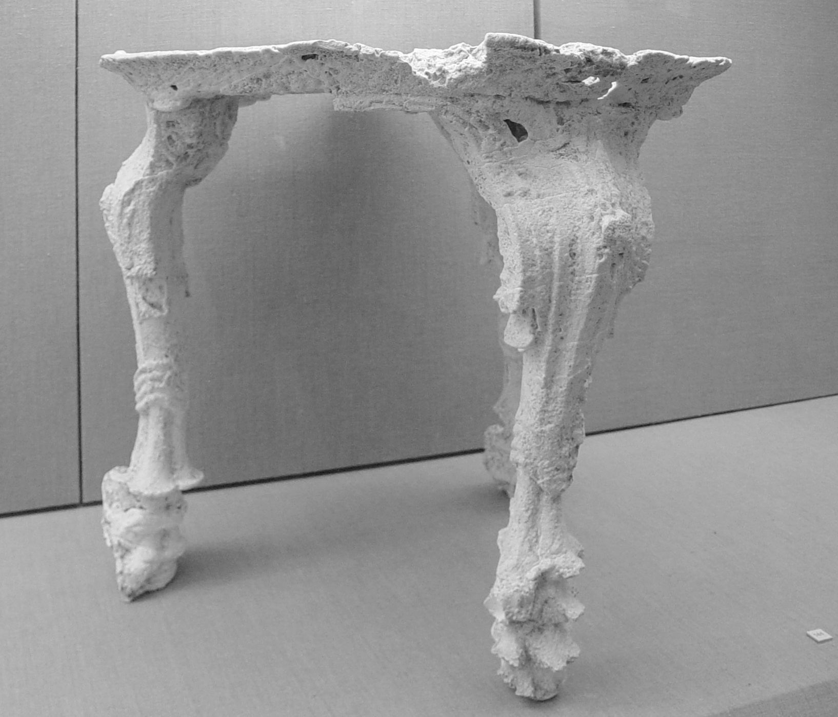 Cycladic (2200-1700 BCE) volcanic ash cavity cast of a carved wooden table, from an excavation on Santorini